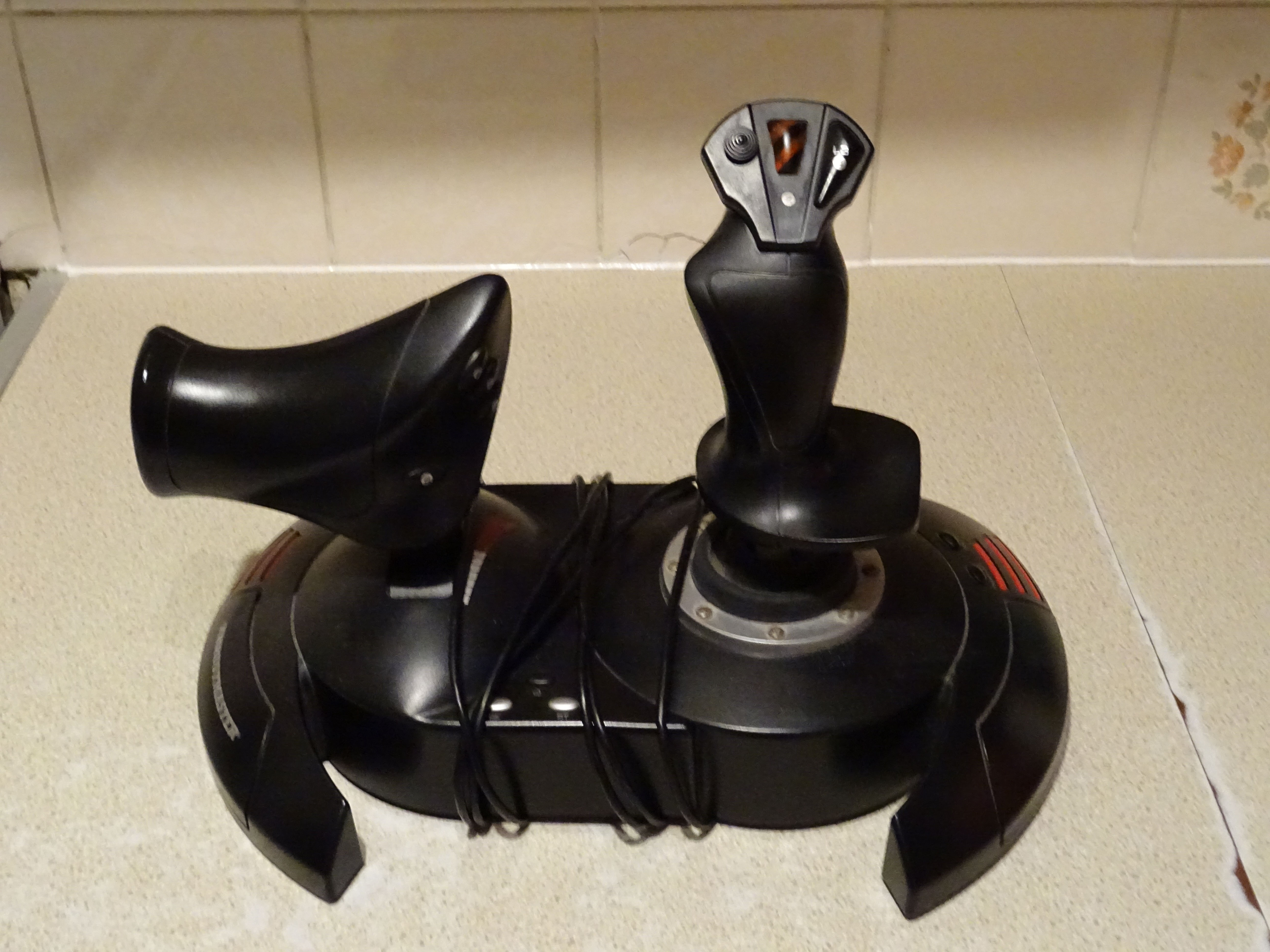 A photograph of a Thrustmaster T-Flight Hotas-X Joystick for Computer Gaming